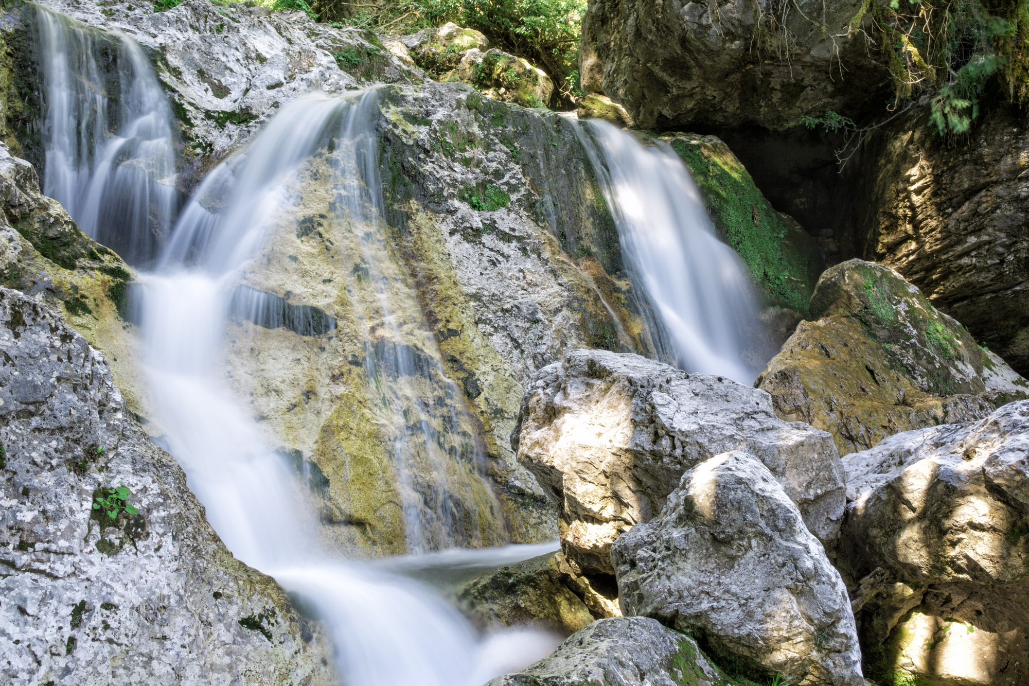 Ochkhomuri Waterfall Natural Monument Attraction: The natural monument is a 100-120 m high waterfall, formed at an altitude of 469 m above sea level on Migaria limestone massif, at the source of Ochkhomuri River. At first the waterfall flows from the slope of the southern exposure, then in the midle it turns into south-eastern exposure, whereas the last part flows from the southern exposure. Each step of the waterfall creates small lakes after touching the ground. At first the waterfall looks like a solid column from afar. The excessive humidity around the waterfall gives way to peculiar flora and fauna. You can find abundance of rare, endemic or relict species here. There is significant presence of stands of large box-trees.